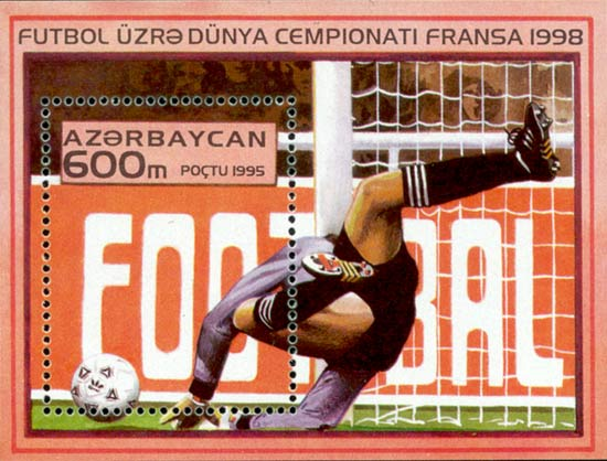 Stamp of Azerbaijan